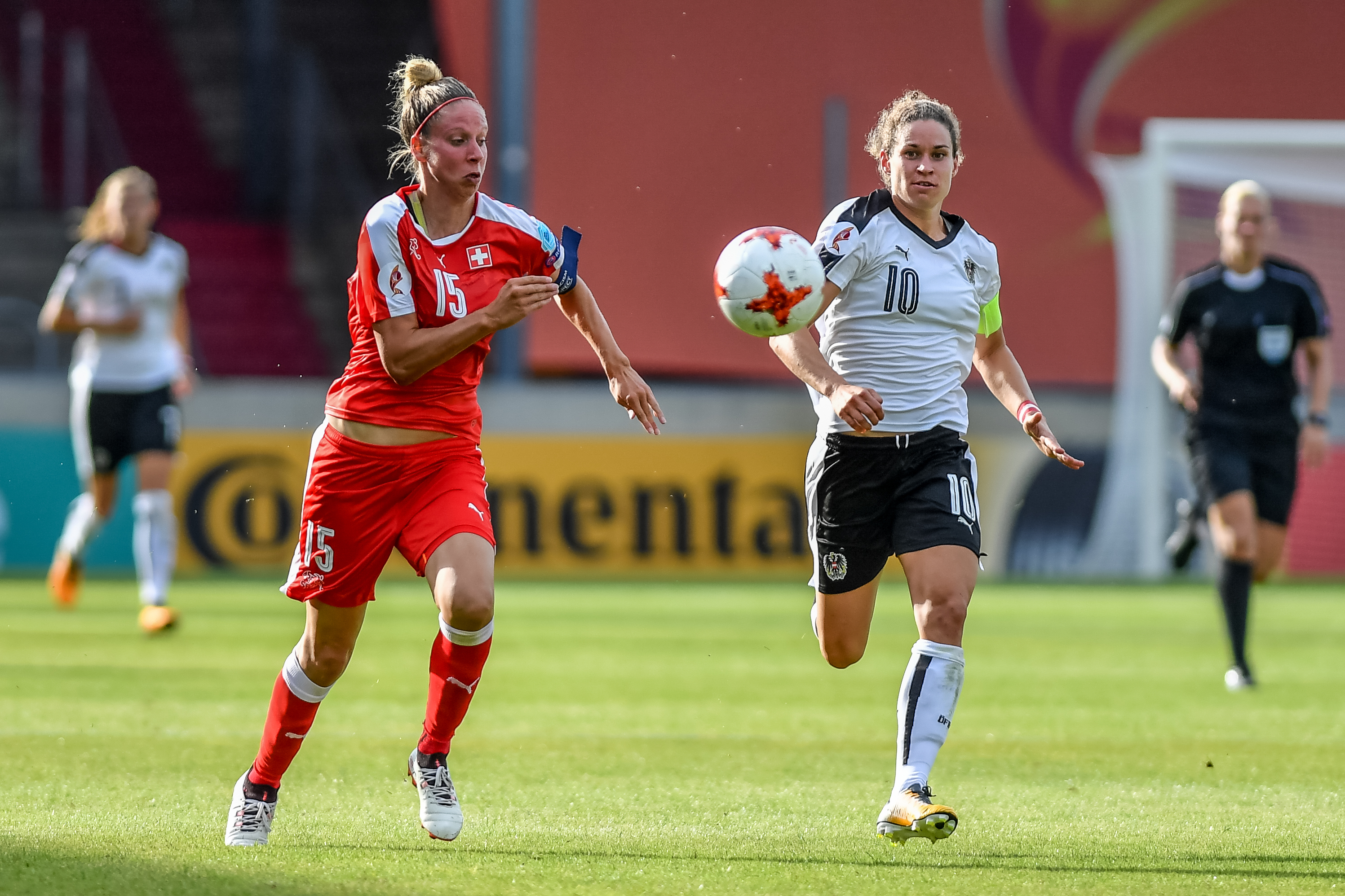 18/7/2017, Deventer, Netherlands, sports, soccer, UEFA Women's Euro 2017 - Austria vs Switzerland.